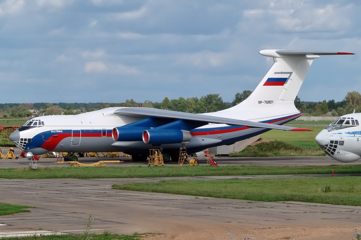 This aircraft crashed in en:2009 Yakutia Ilyushin Il-76 crash